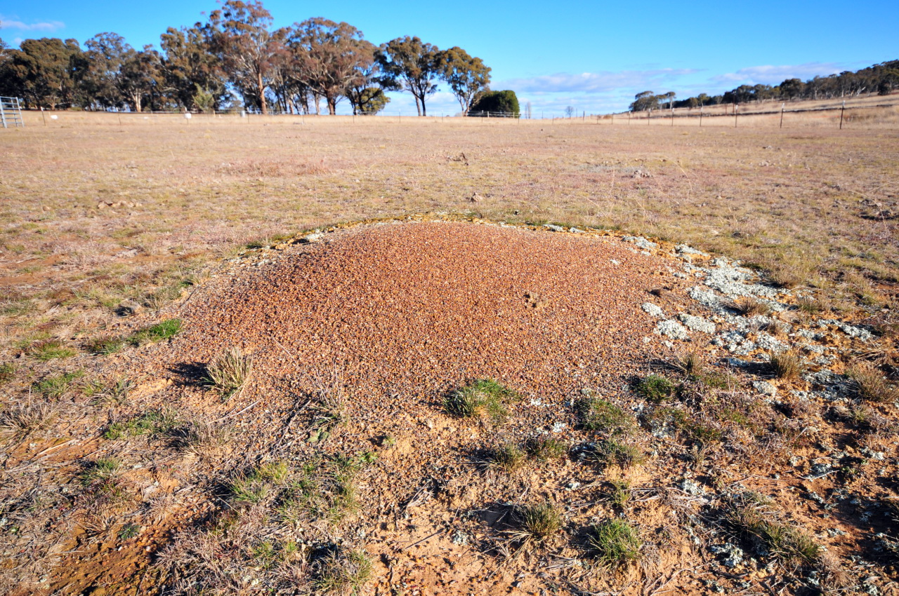 Meat ant nests, such as this Iridomyrmex purpureus nest, are the largest ant nests in Australia and colonies can contain several hundred thousand workers.